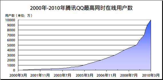 Chart for Tencent QQ simultaneous online users from 2000 to 2010